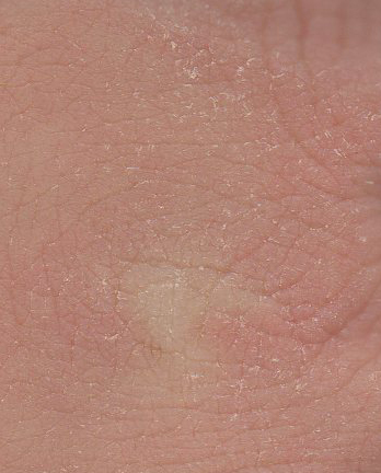 Cropped from a scan of my own hand (I have severe dry skin in the winter).